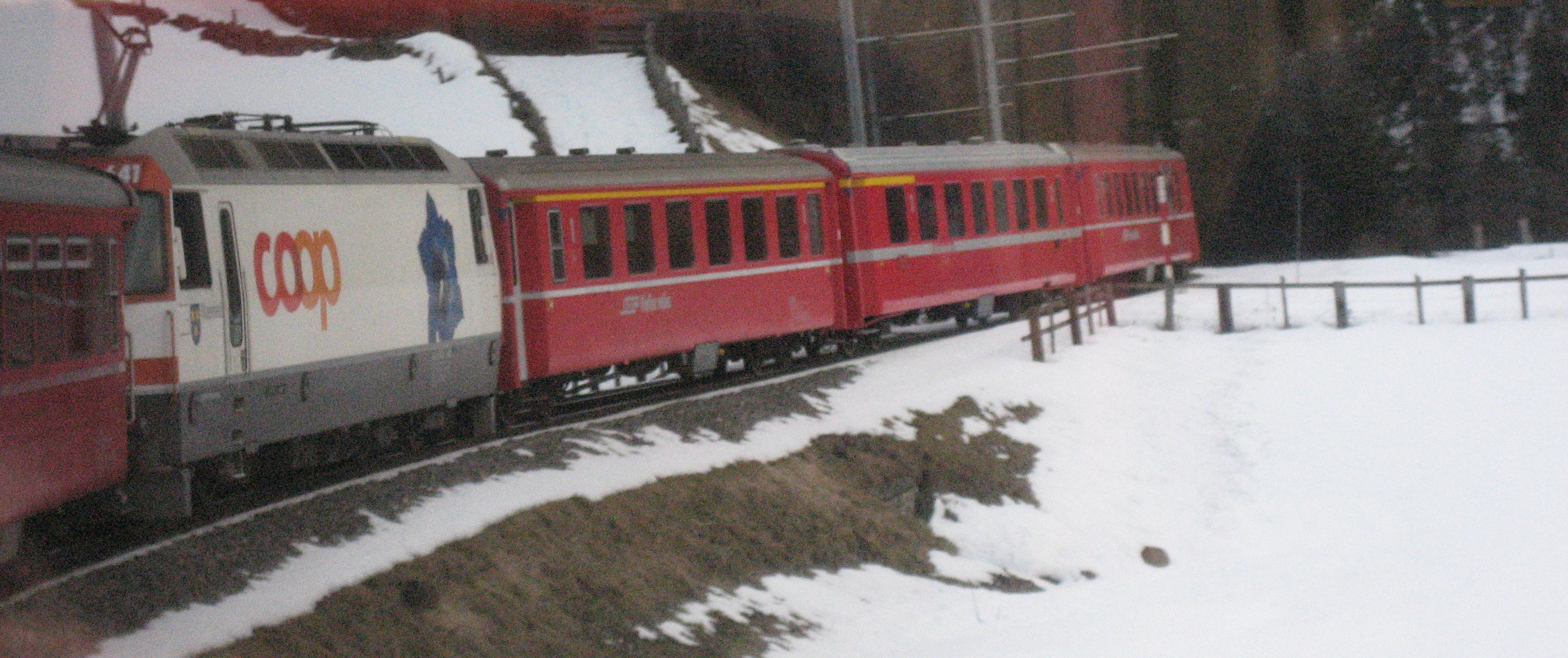 Rhatische Bahn train from Davos to Klosters